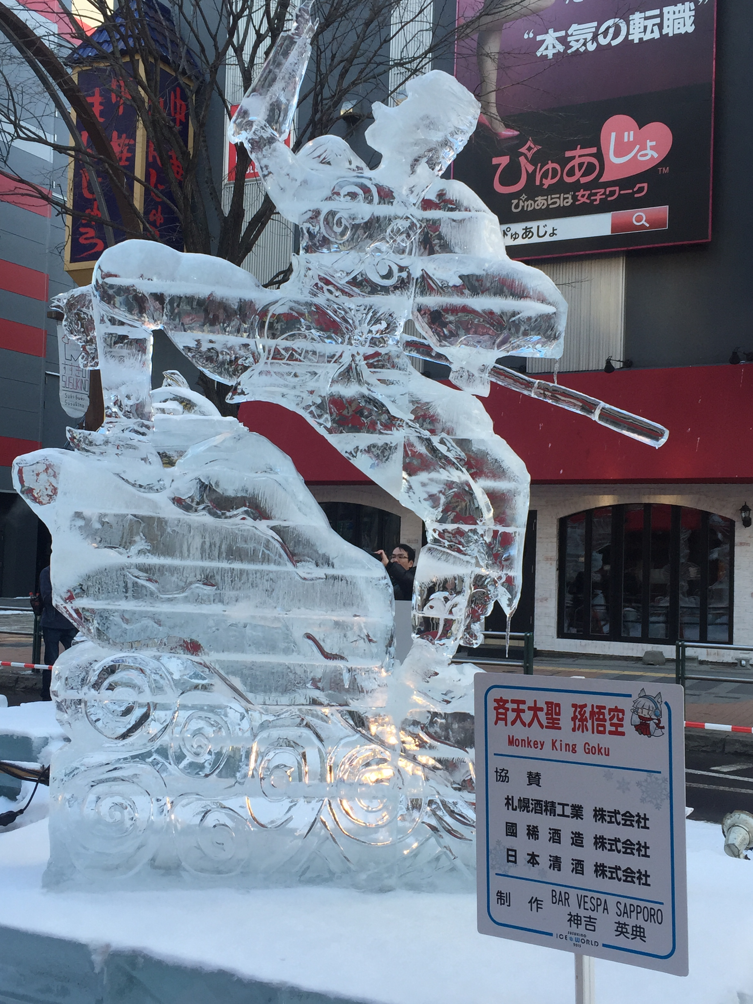 A Monkey King Ice Sculpture in Susukino.